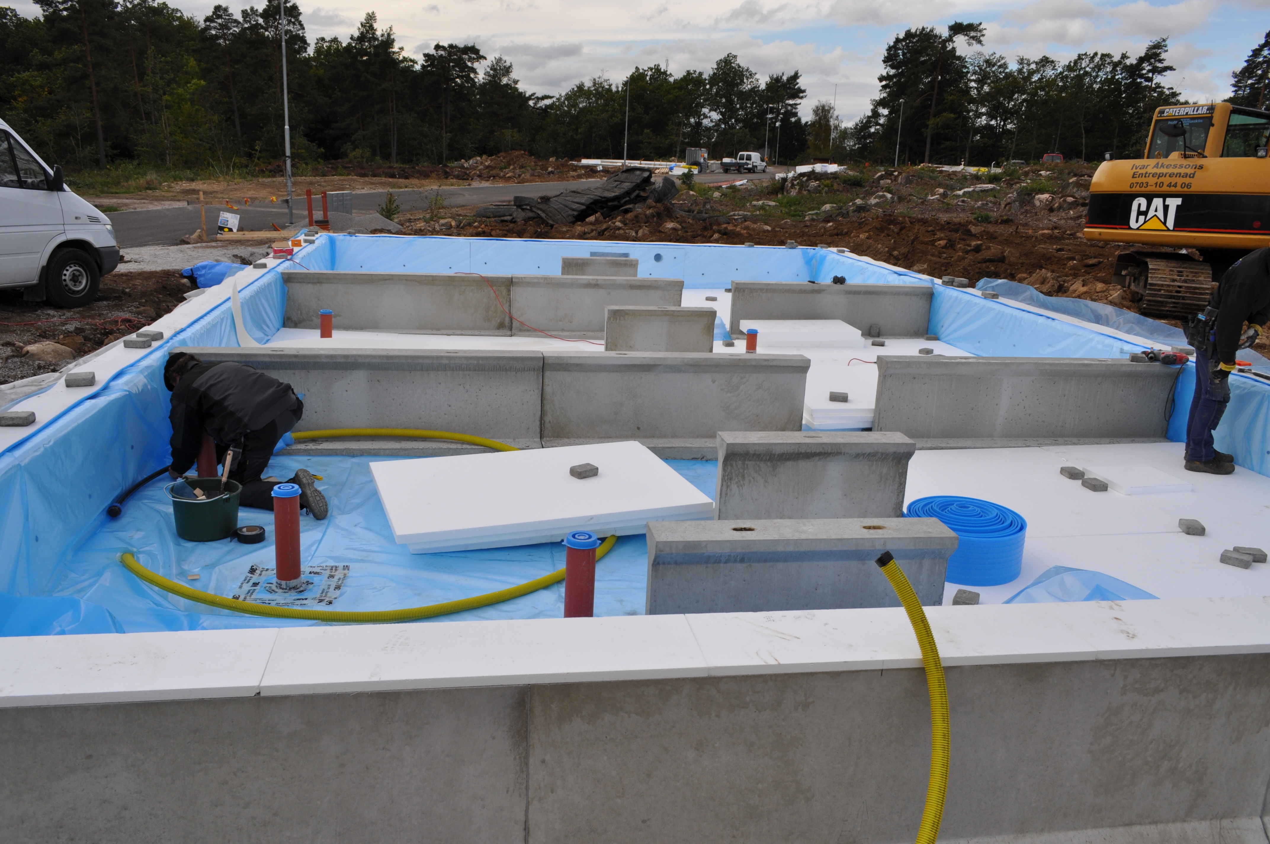 Crawl spaces with modern technique.